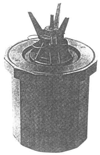 A VS-JAP bounding anti-personnel mine - from the ORDATA database.